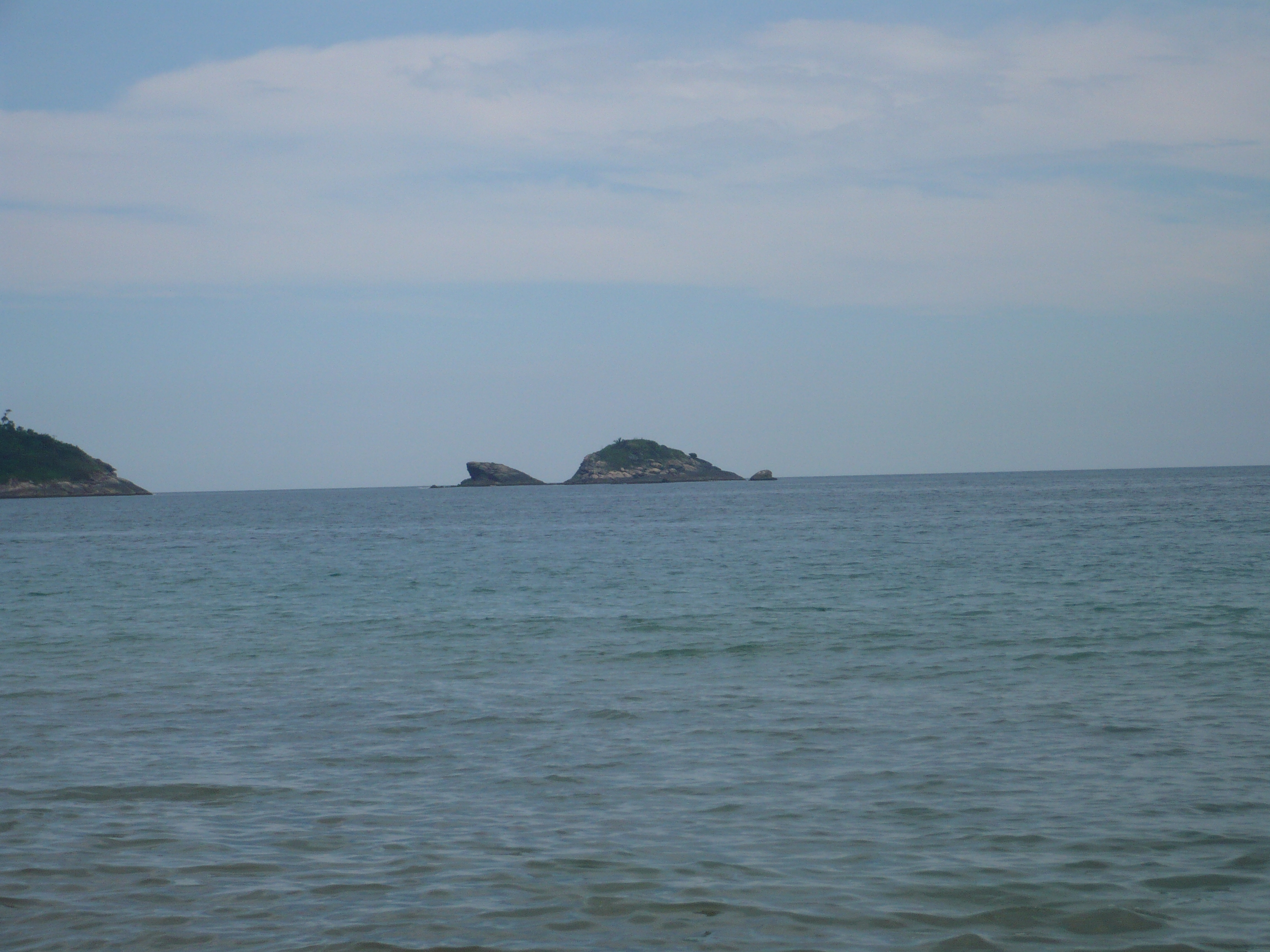 Toque-Toque Pequeno Island from the nearby Santiago Beach.